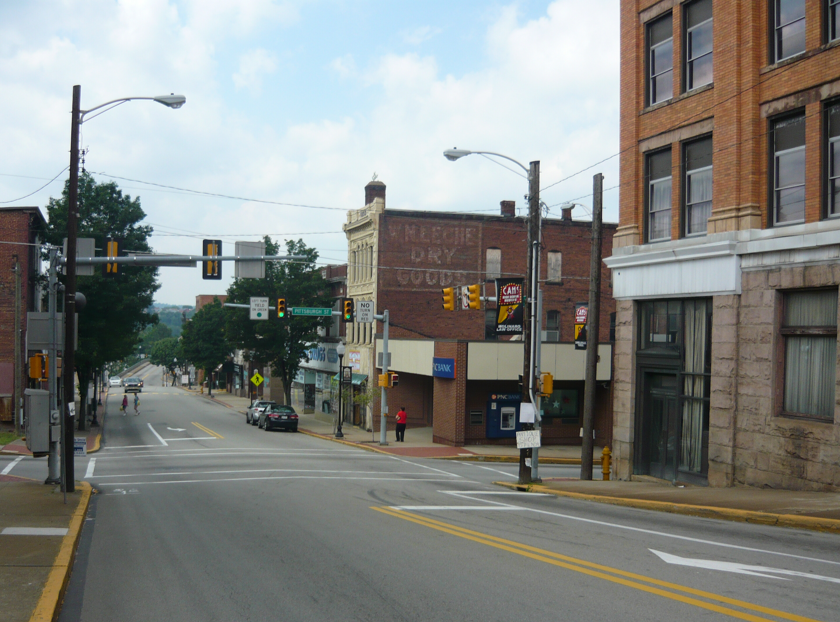 Business district of Connellsville, Pennsylvania. Photo was taken looking downhill (westward) on East Crawford Avenue, traditionally the main shopping street of the city. The next cross street is Pittsburgh Street.